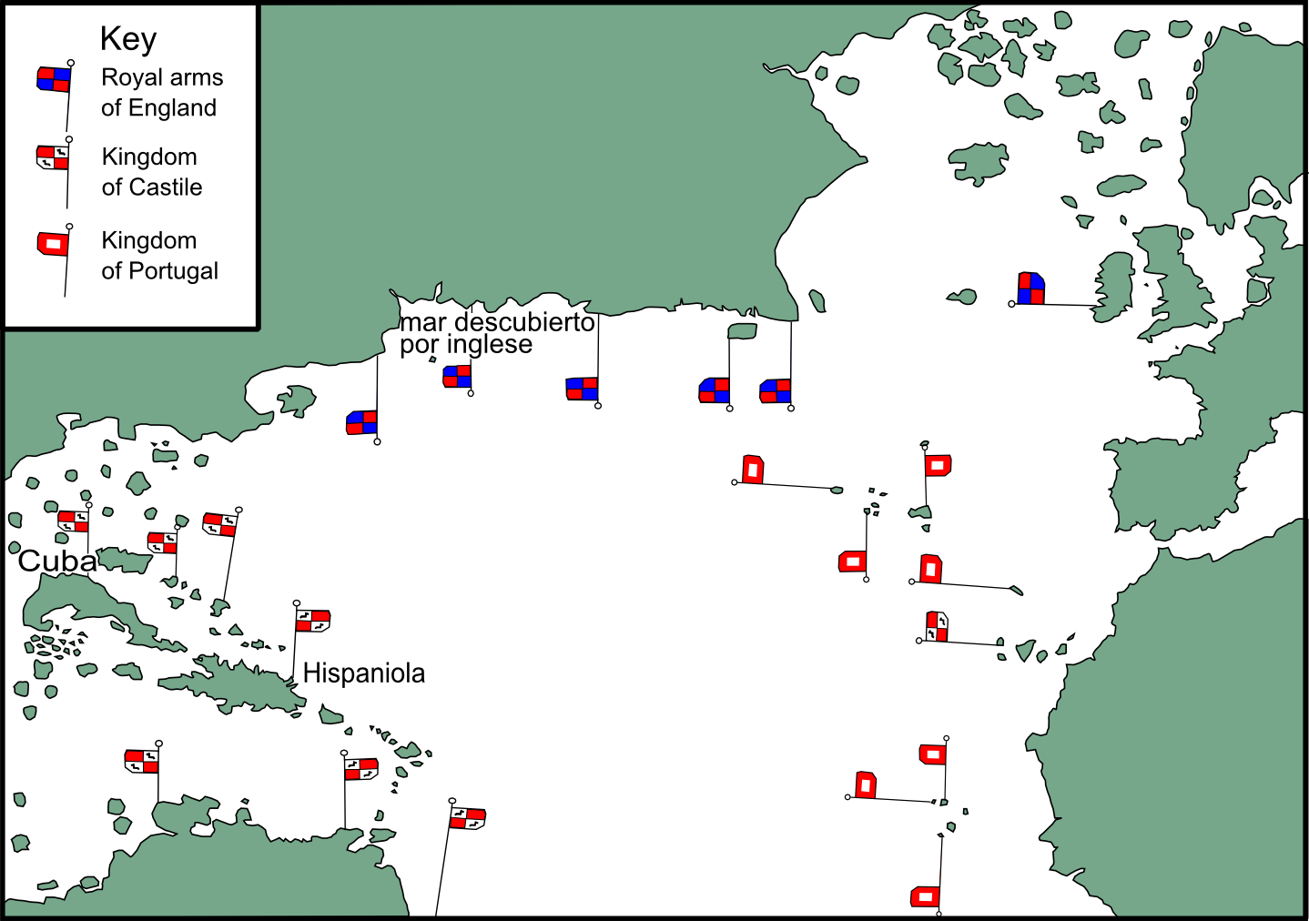 1500 AD: The North Atlantic in Juan de la Cosa’s Map with English flags marking the coast and 'sea discovered by the English’ (mar descubierto por inglese) in North America. The Castilian flags record the Caribbean islands and the north coast of South America explored by the Spanish. Portuguese and Spanish flags on the Atlantic islands off Africa mark the recently-established colonies in the Azores, the Canaries and the Cape Verde Islands: Evan T. Jones and Margaret M. Condon, Cabot and Bristol's Age of Discovery: The Bristol Discovery Voyages 1480-1508 (University of Bristol, Nov. 2016), p. 2.